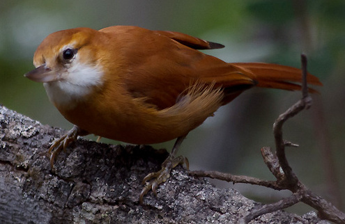 Great Xenops Megaxenops parnaguae